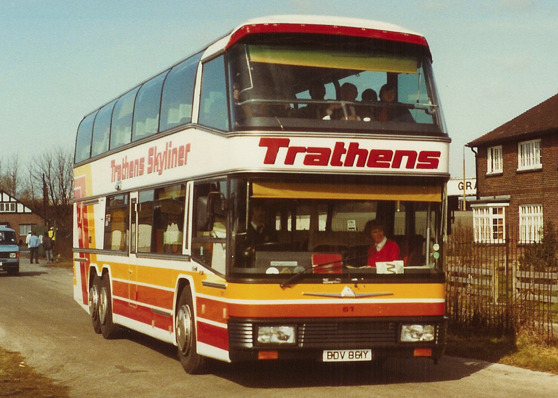 Neoplan Skyliner BDV 861Y, new to Trathens Travel Services of Yelverton, Devon.